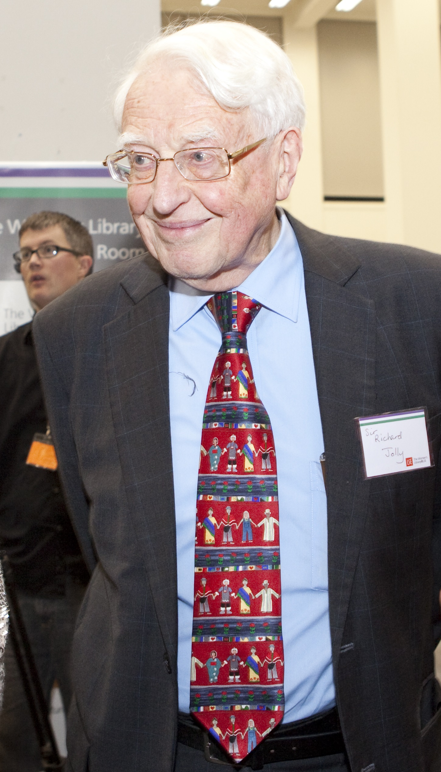 British development economist Sir Richard Jolly at the LSE Women's Library.